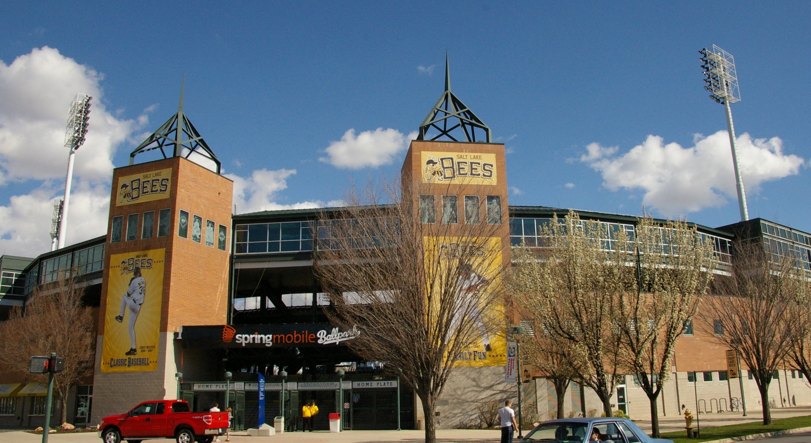 Spring Mobile Ballpark, home of the Salt Lake Bees.